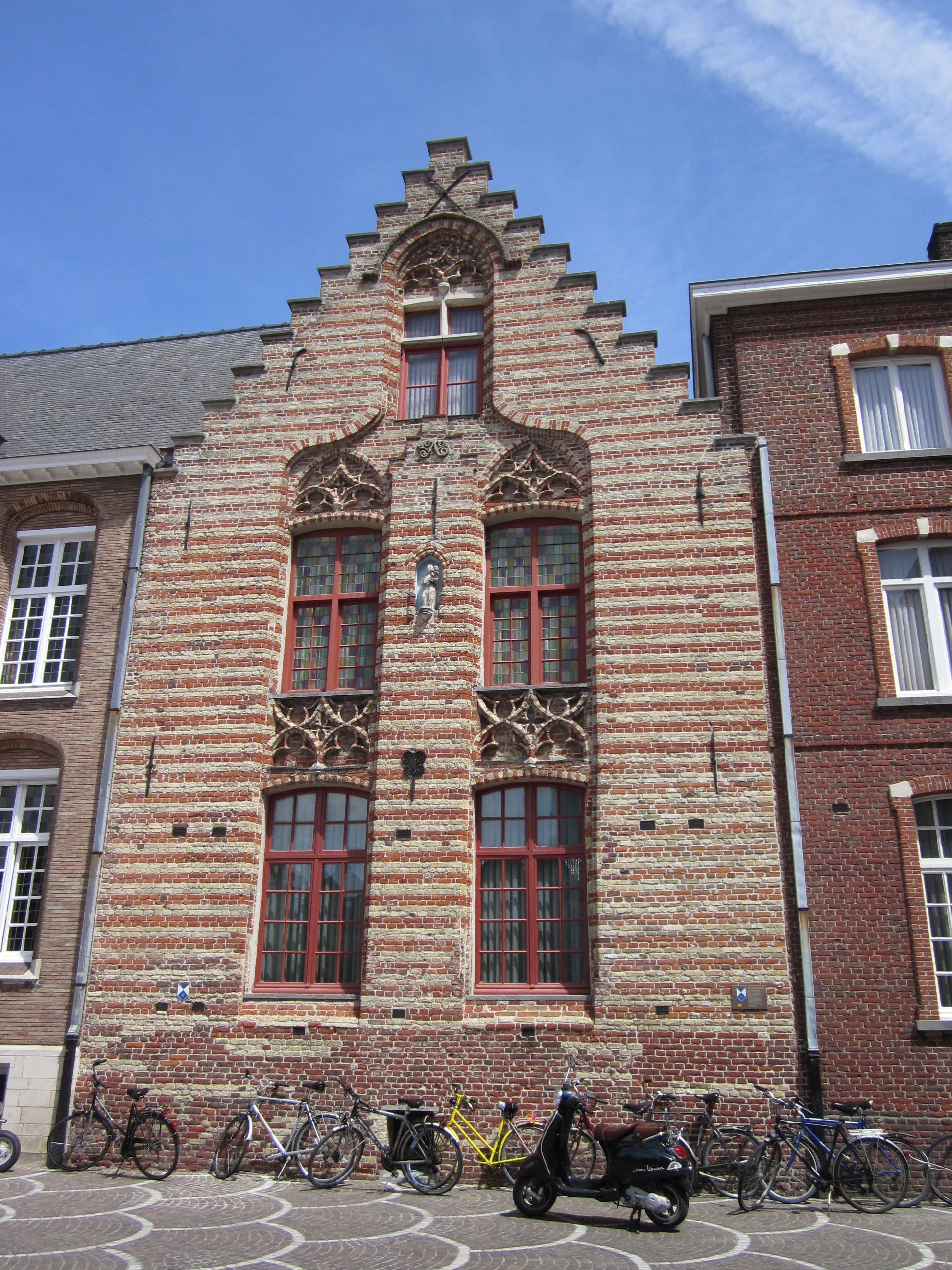 Convent of the Grey Franciscan Sisters in Roeselare, gothic 16th century stepped gable